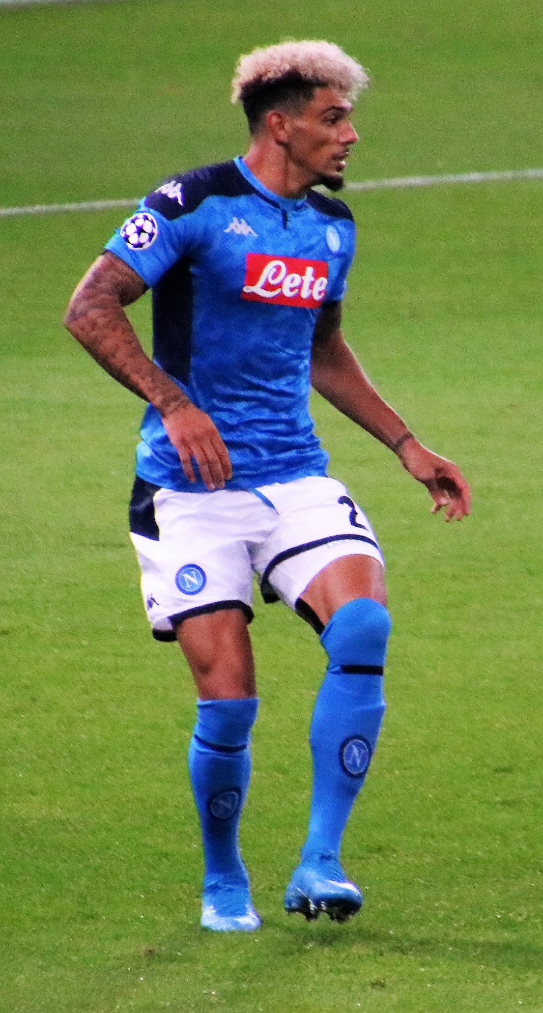 3rd round UEFA Champions League